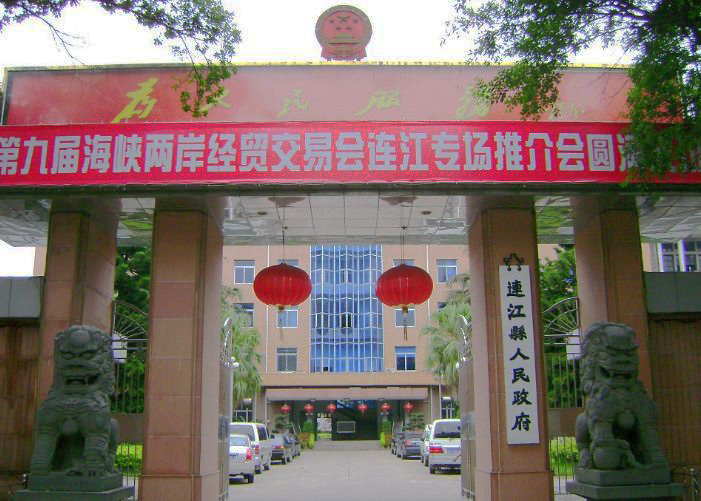 the photo of lianjiang county goverment